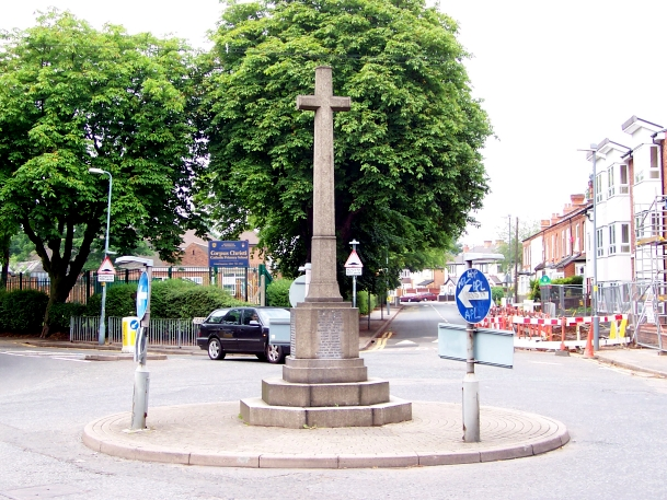 Stechford Five Ways. The Stone Cross war memorial. Away from the A4040, Stechford is a pleasant, mature suburb.